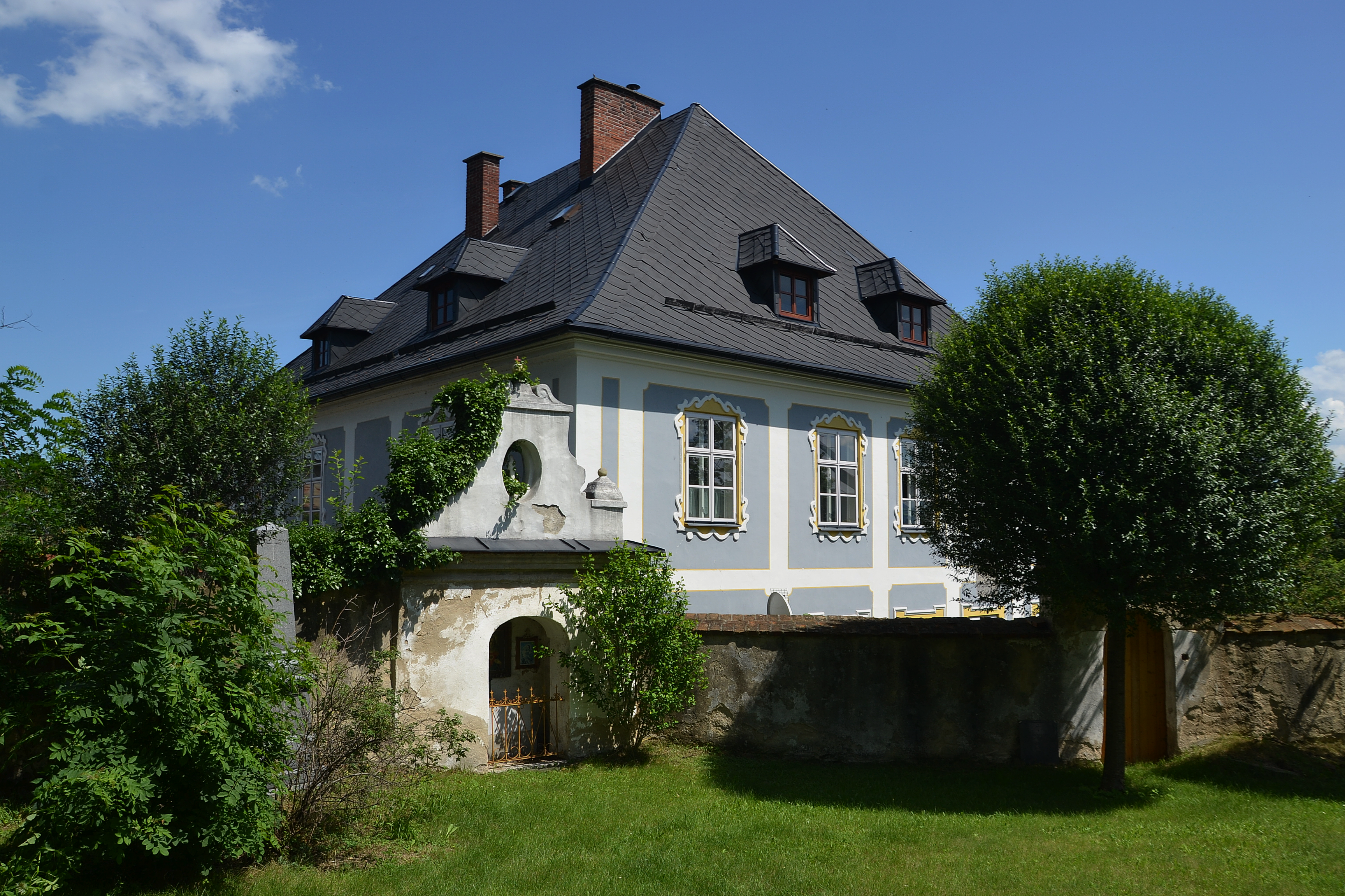 Bernartice (Barzdorf), Czech Silesia - parish.